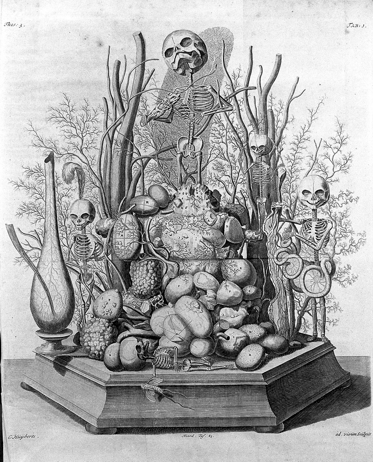 "Thesaurus anatomicus tertius", mounted foetal skeletons Rare Books